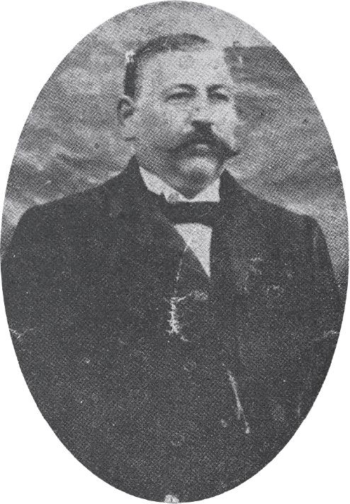 Portrait of Kocho Mavrodiev, Bulgarian exarchist